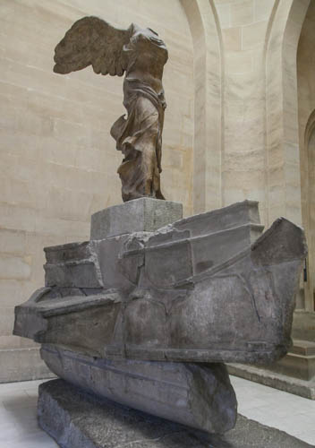 Still groggy from jet lag I took on the Louvre - not an easy task - this world class museum is huge - and then some - it seems to go on forever. I am so glad I'm not blond because it is very hard to navigate and it's easy to get lost. Despite that, the history, sculptures, and art pieces are incredible. If you have the chance this is definitely worth checking out! - Nike of Samothrace, Louvre, Paris, France. I took these photos in January 2013.